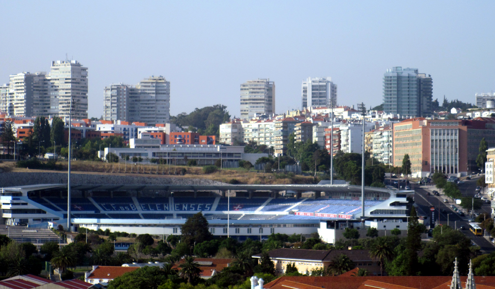 Estadio do Restelo is a multi-purpose stadium in Lisbon, Portugal. It is currently used mostly for football matches, by SuperLiga club Belenenses. The stadium has a capacity of 32,500 people. It was built in 1956. In 2000 Pearl Jam recorded a live album there. Queen + Paul Rodgers On Tour Summer leg started in Estadio do Restelo on July 2, 2005, being the first Queen show in Portugal and the first stadium show in 19 years.